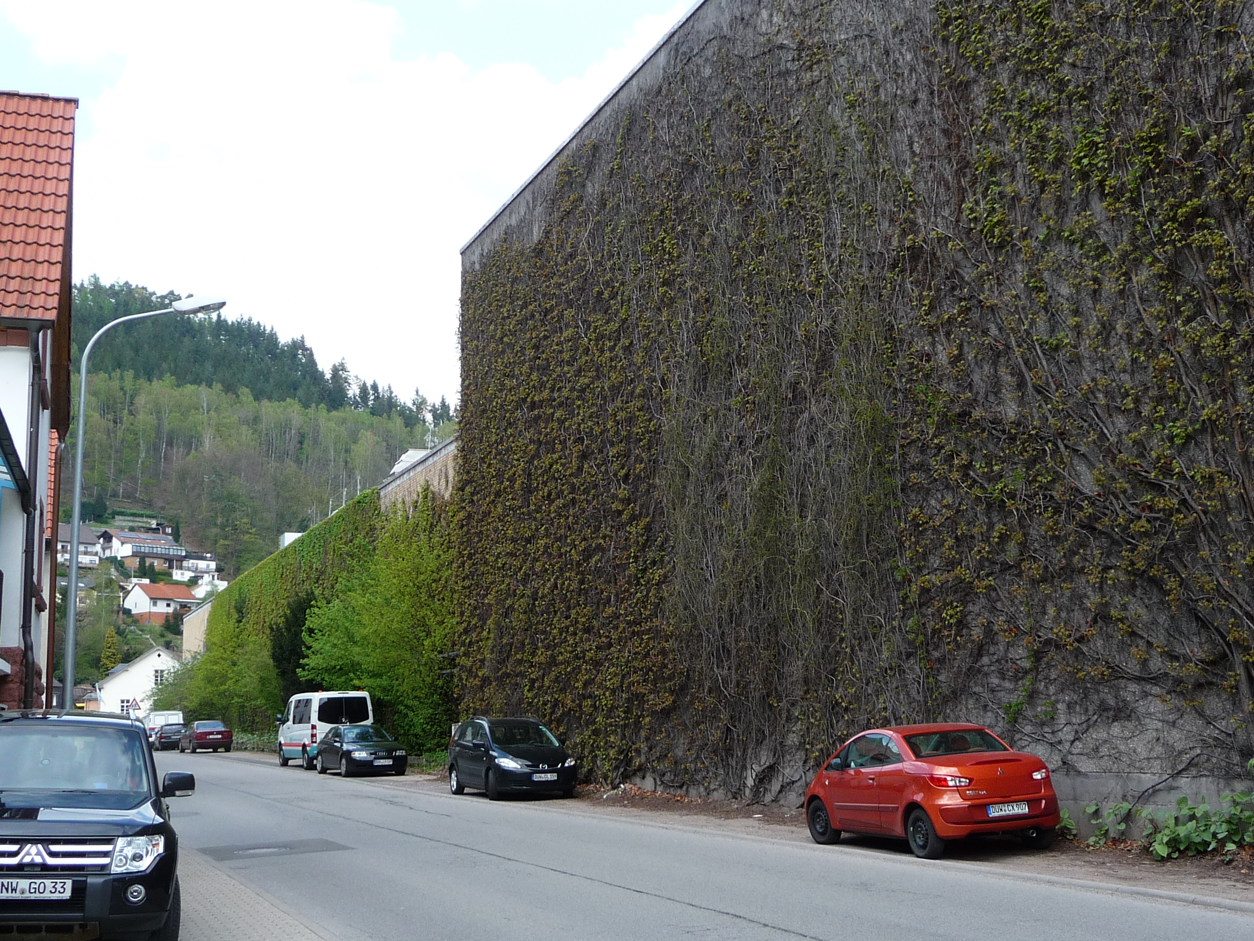 Frankeneck